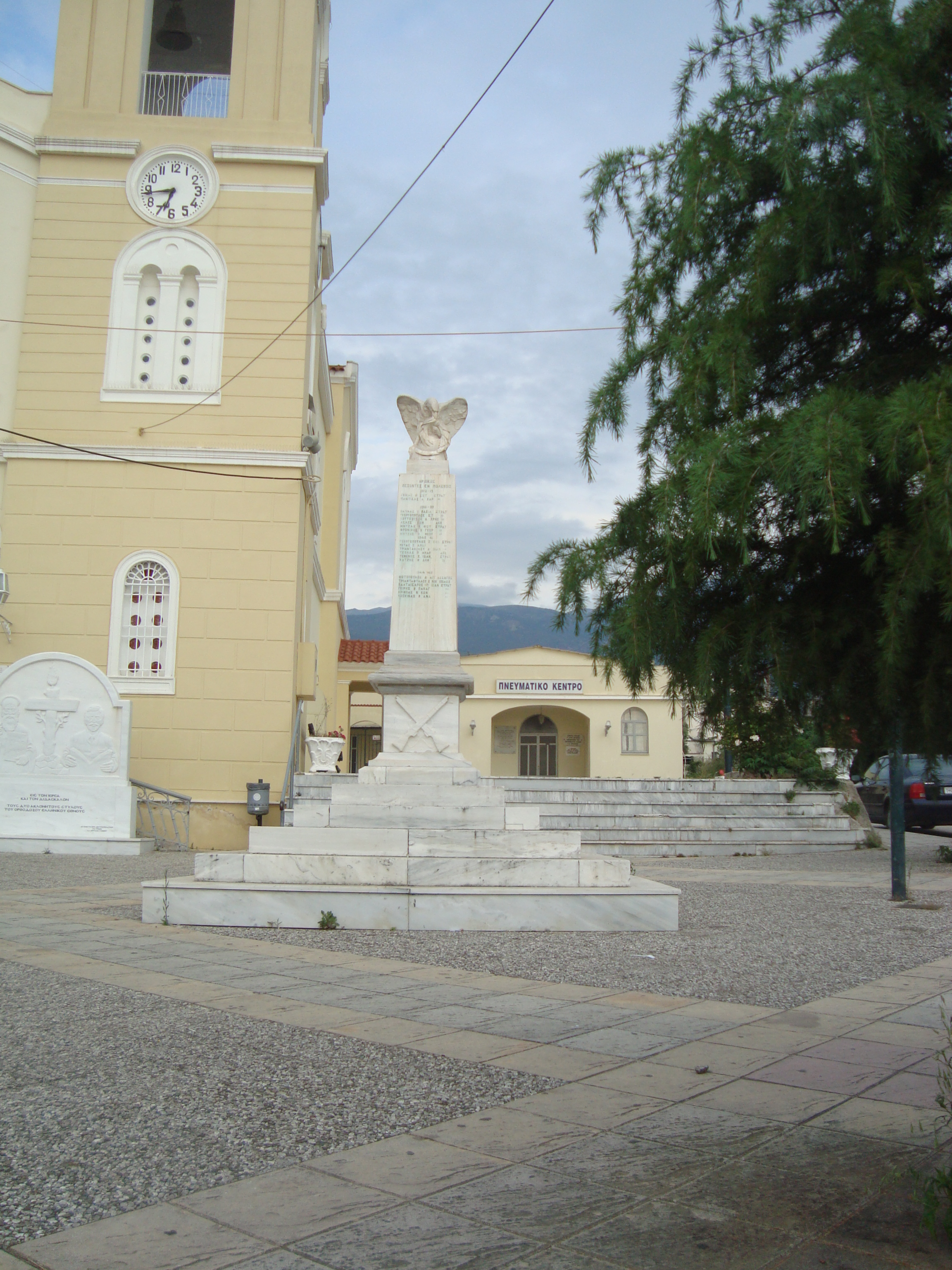 Eglykas District in Patras, Greece